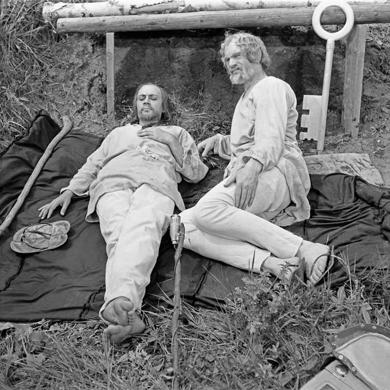 A scene from the movie "Need a gatekeeper". Ion Sandri Scurea and Ion Ungureanu.